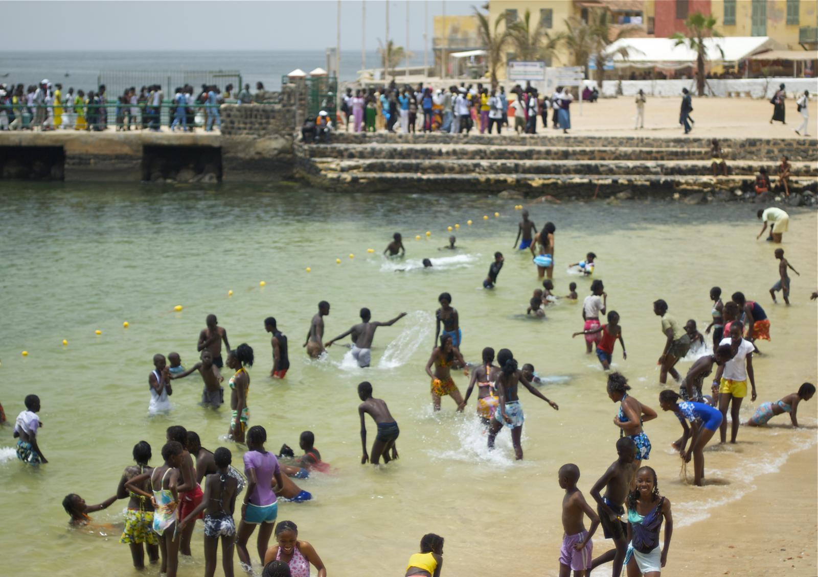 Beach of Goree (Senegal)